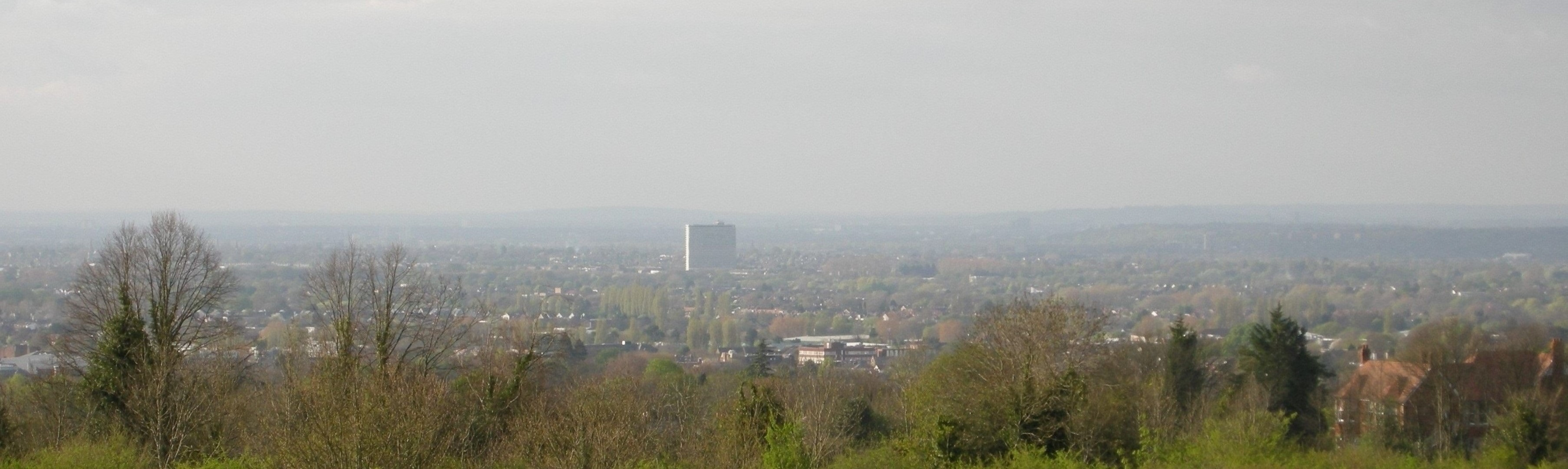 View of Tolworth Tower, Tolworth, Royal Borough of Kingston upon Thames, from Epsom Downs, looking north: cropped version.